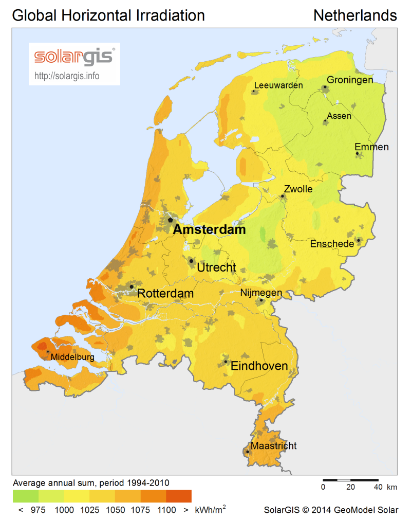 Solar Radiation Map: Global Horizontal Irradiation Map of the Netherlands, SolarGIS.